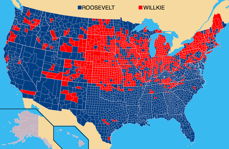 Map of 1940 US presidential election results by county